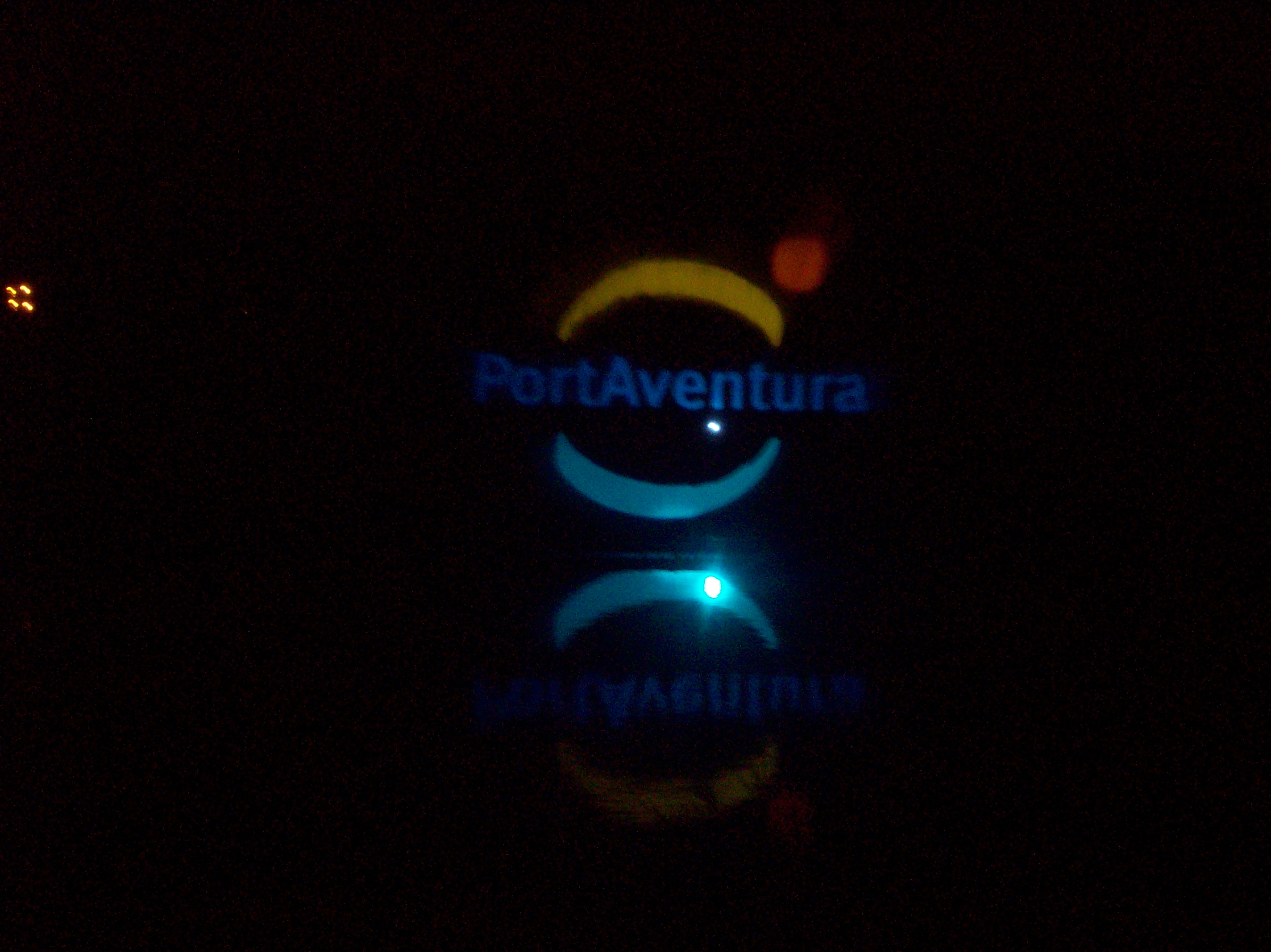 A laser projection of the Port Aventura logo during the show FiestAventura